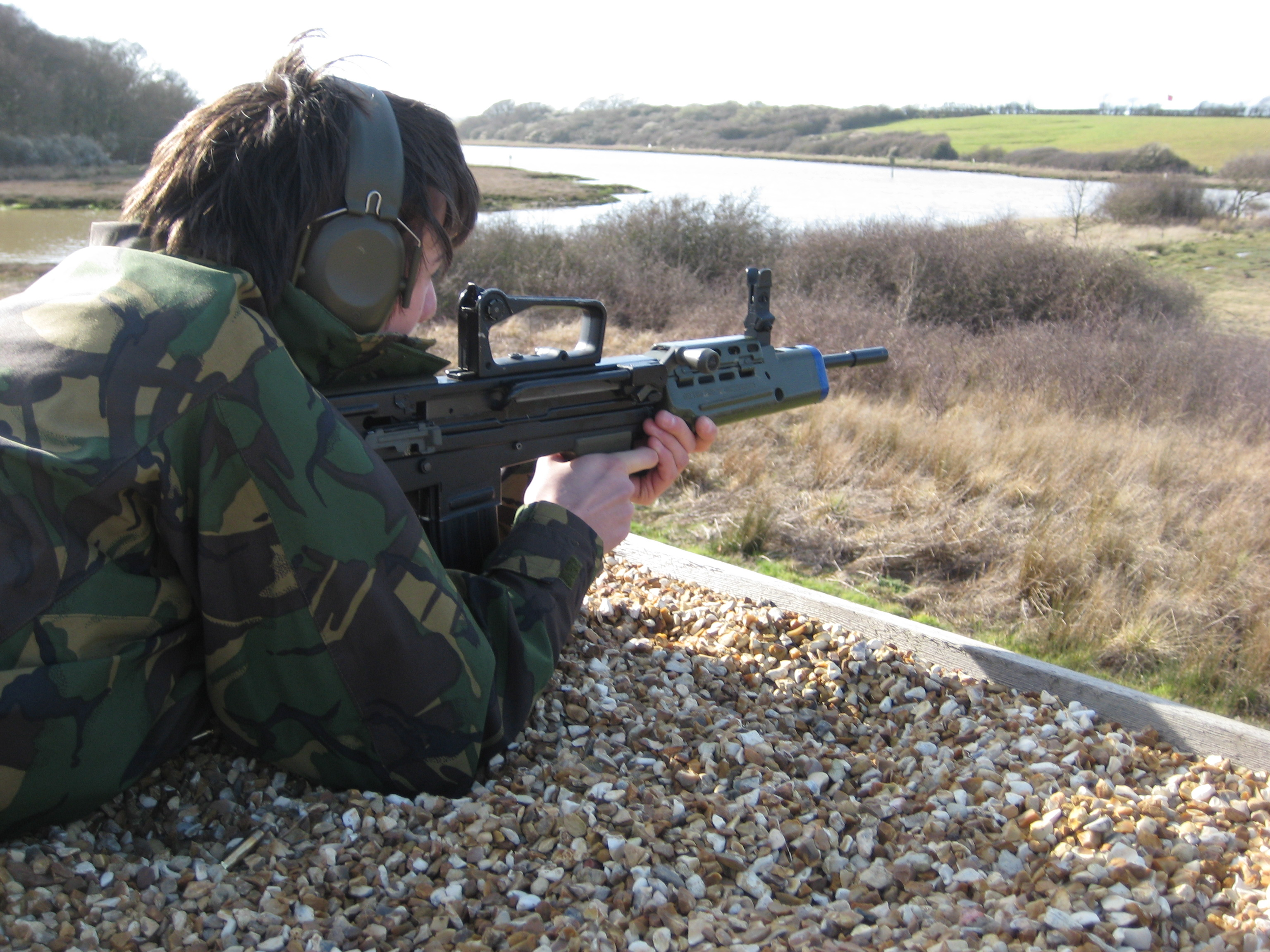 A Cadet affiliated to the Royal Signals fires the L98A1 Cadet GP Rifle